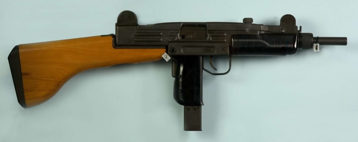 A 1952 IMI Uzi, once owned by Swedish Major General Carl C:son von Horn (1903–1989). It was gifted to von Horn in 1961 with the inscription: "To Major General C. C. von Horn, Chief of Staff U.N.T.S.O. With best Wishes from Rav. Aluf Z. Zur, Chief of General Staff, Israel Defence Forces. August 1961." It was donated to the Swedish Army Museum by the von Horn family in September 1971.